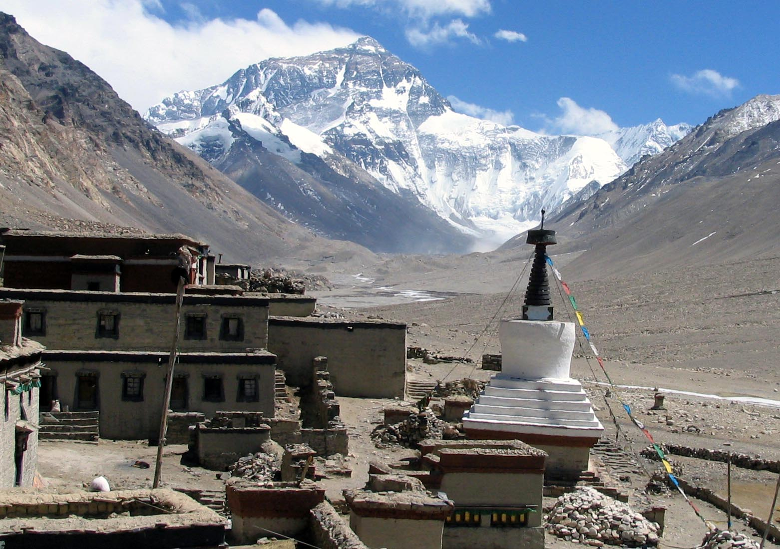 Classic view of the Rongbuk Monastery, Tibet taken by me while on a trek to Advanced Base Camp of Mount Everest.